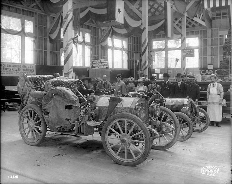 Subjects (LCSH): Automobiles--Washington (State)--Seattle; Alaska-Yukon-Pacific Exposition (1909 : Seattle, Wash.); Exhibitions--Washington (State)--Seattle